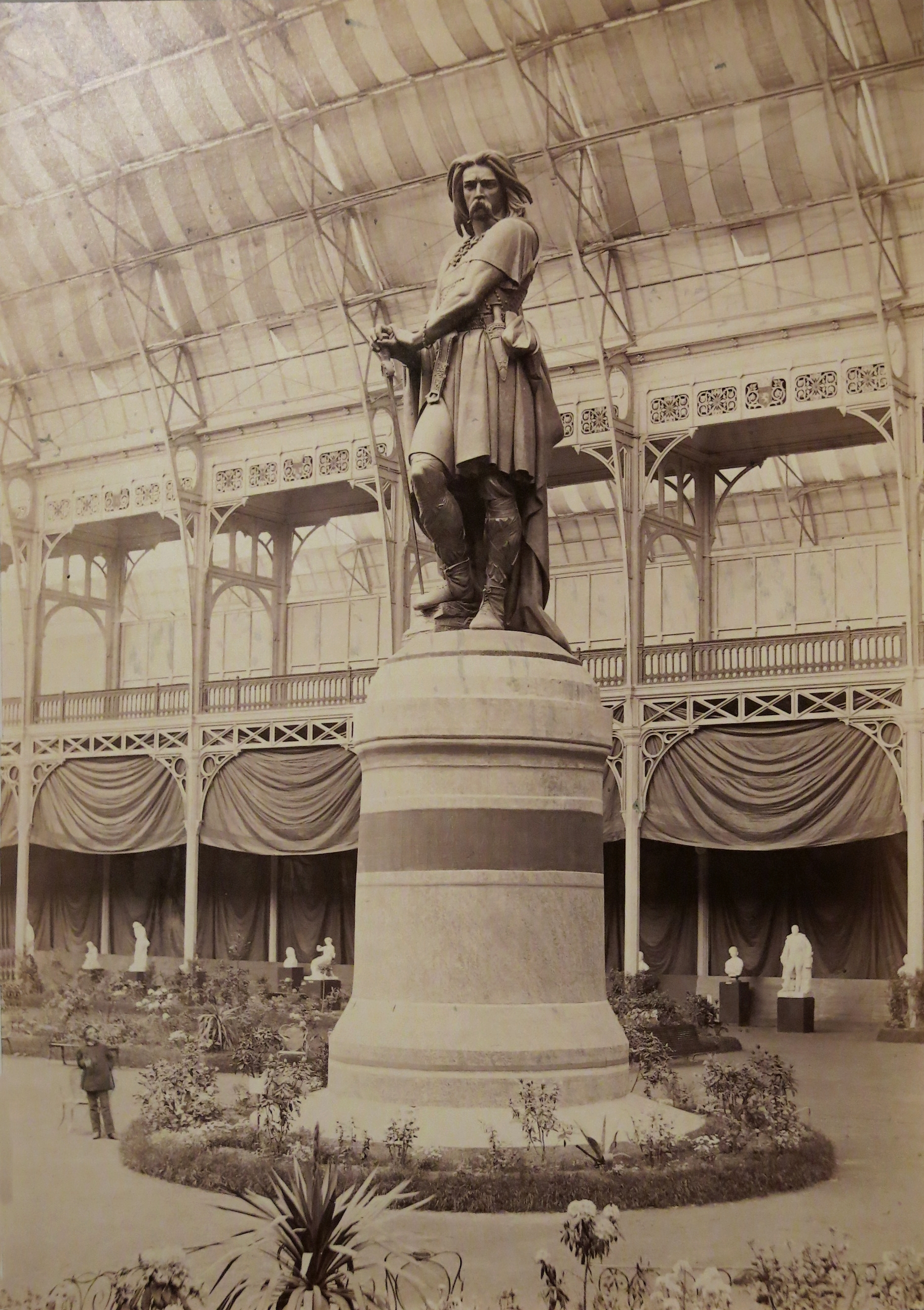 Photo of the statue of the gaulish chief Vercingetorix in the Salon (Paris, France) of 1865 by Charles Marville. Charenton-le-Pont, médiathèque de l'architecture et du patrimoine, 0080/183-1.